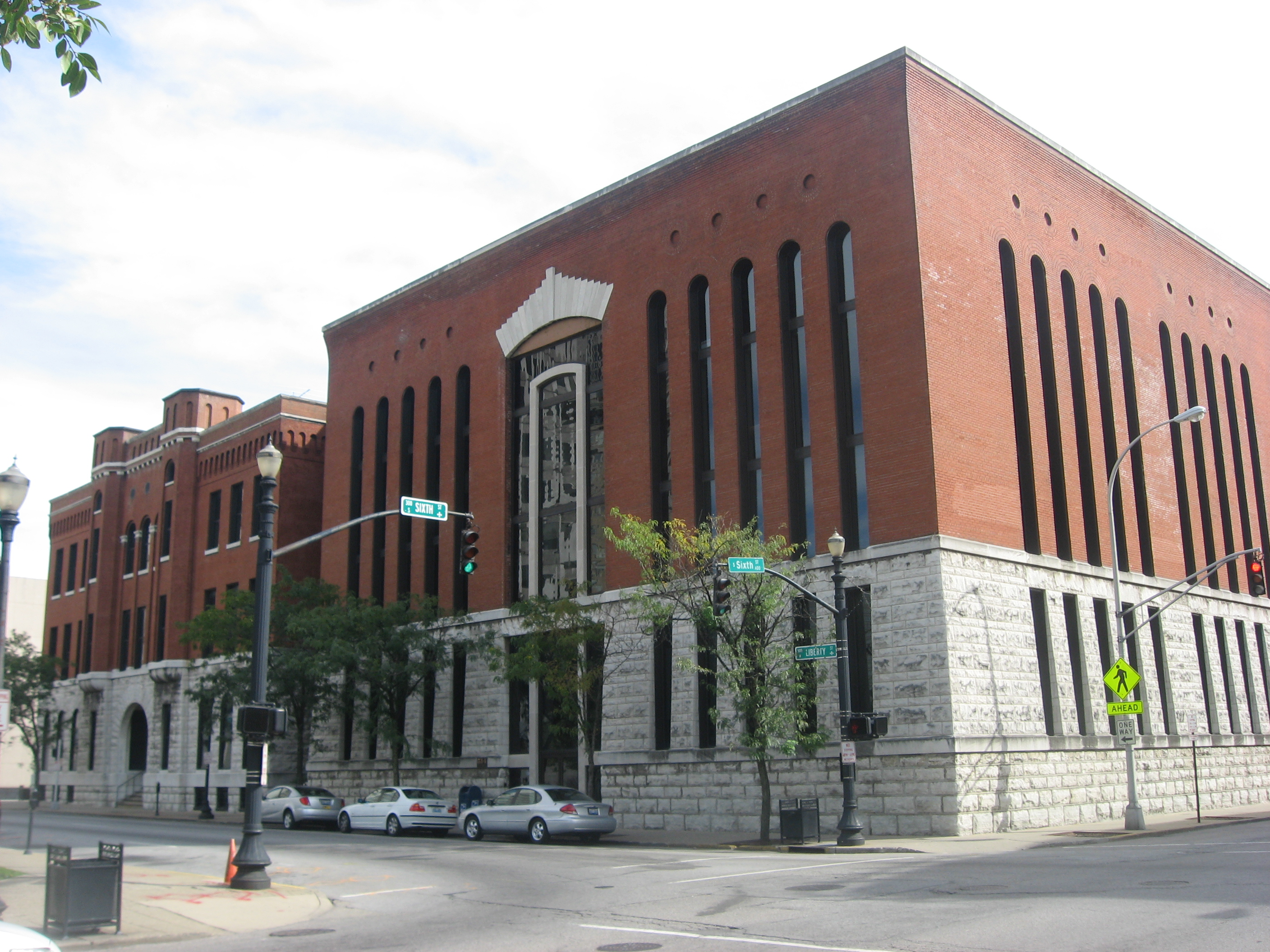 Front of the Jefferson County Jail, located at 514 W. Liberty Street (U.S. Route 60) in Louisville, Kentucky, United States. Built in 1905, it is listed on the National Register of Historic Places.